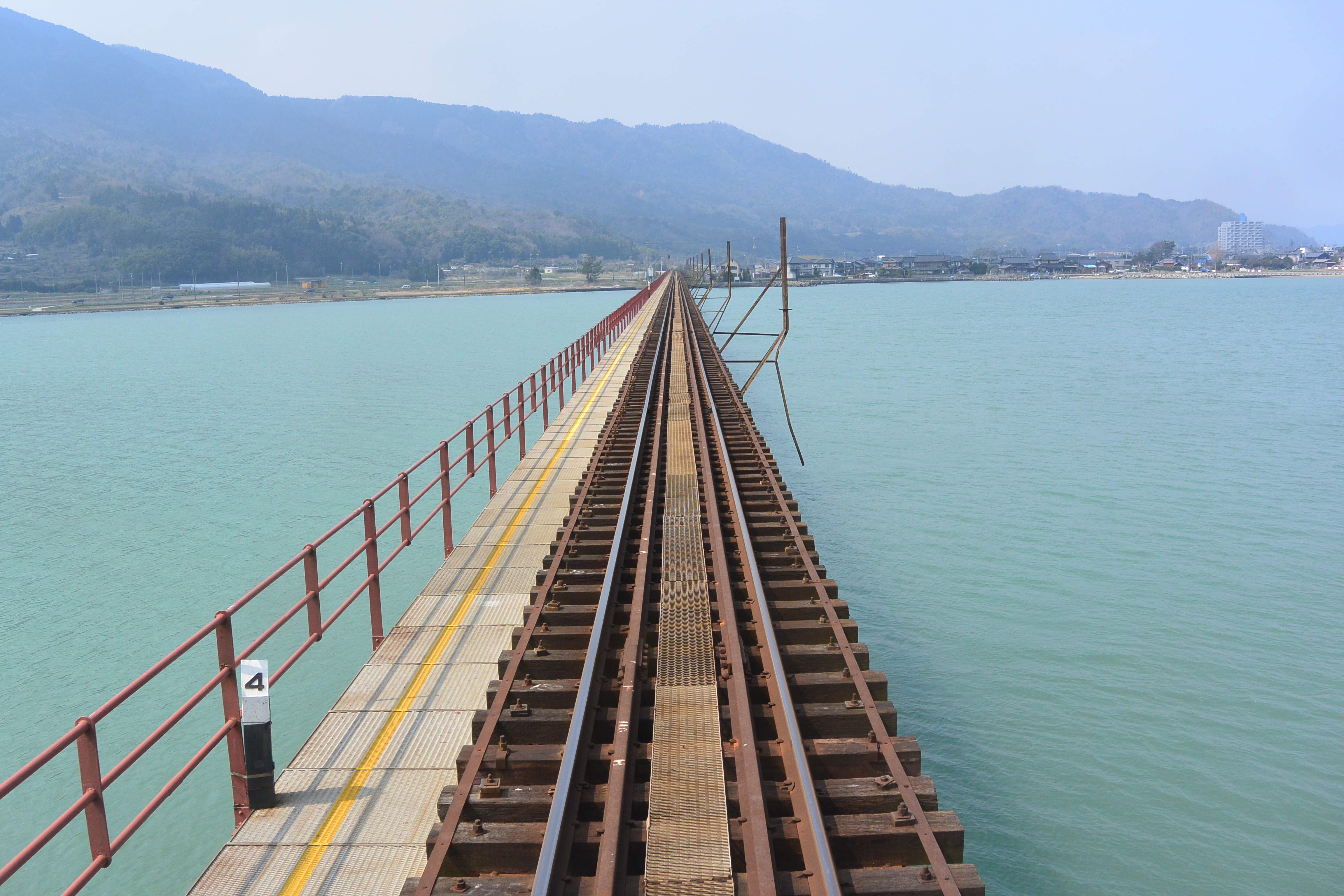 Yura river bridge from special train Akamatu , Kyoto Japan Nikon 1 AW1